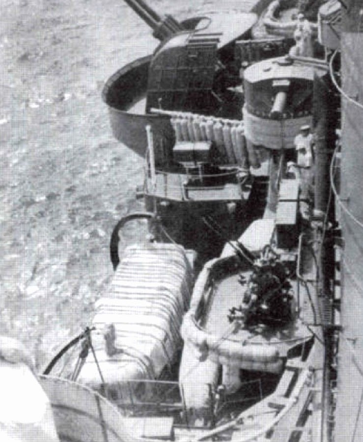 Central part upper deck portside japanese heavy cruiser Haguro. Visible Type 96 25-mm dual automatic cannon, 4,5-m rangefinfer and Type 89 127-mm dual HA gun mount.